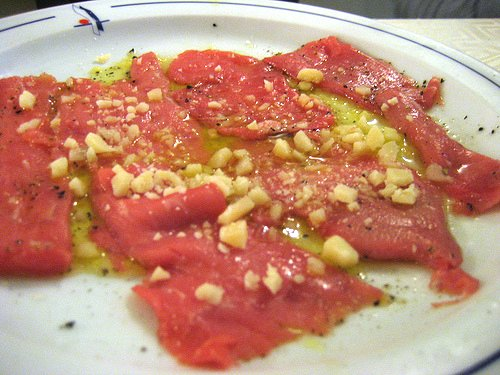 Carpaccio (Carpaccio of sirloin).